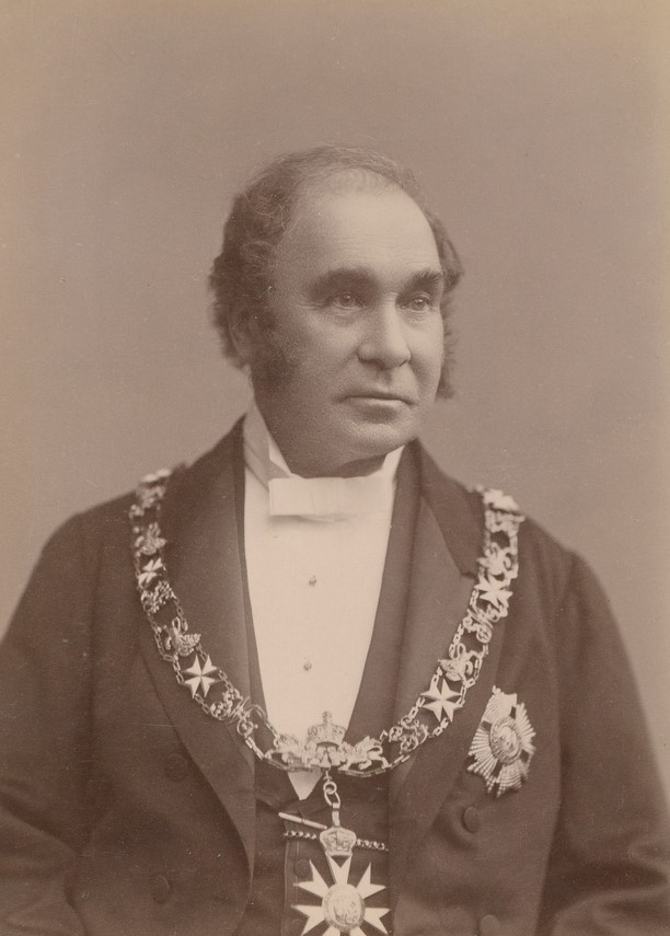 Portrait of Thomas Elder.